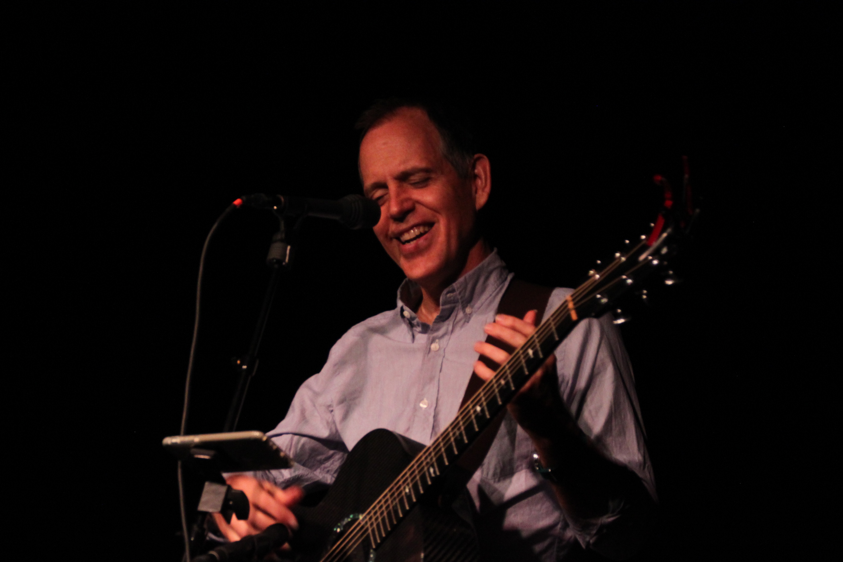 2016-09-23 David Wilcox in Richmond VA